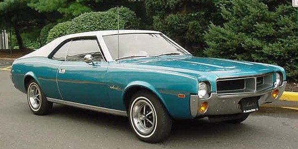 1969 Javelin SST model by American Motors (AMC) - a "pony car". This two-door hardtop is finished in blue with the optional white vinyl covered roof. This car also has the factory optional "Magnum" styled wheels.